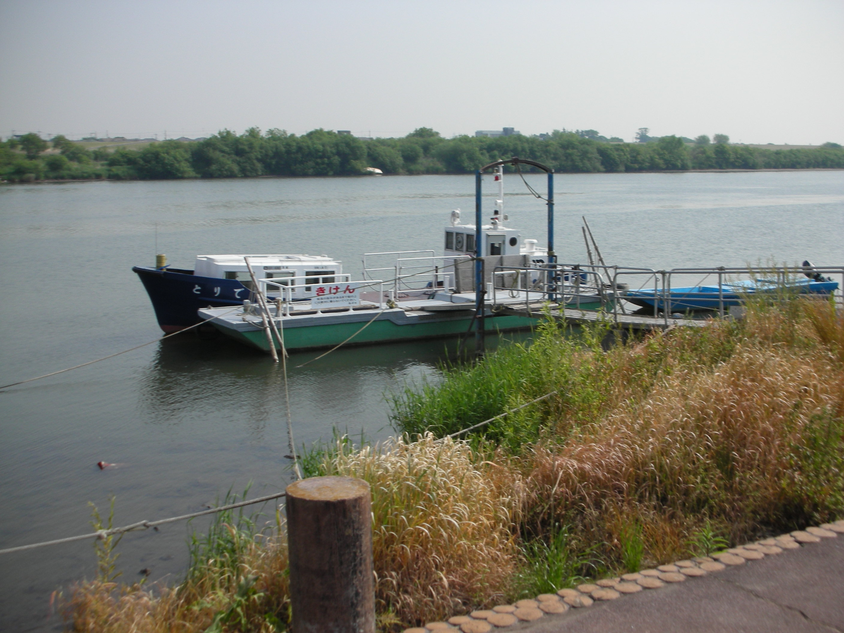 Ohori no Watashi (Ohori Ferry) Ohori Pier